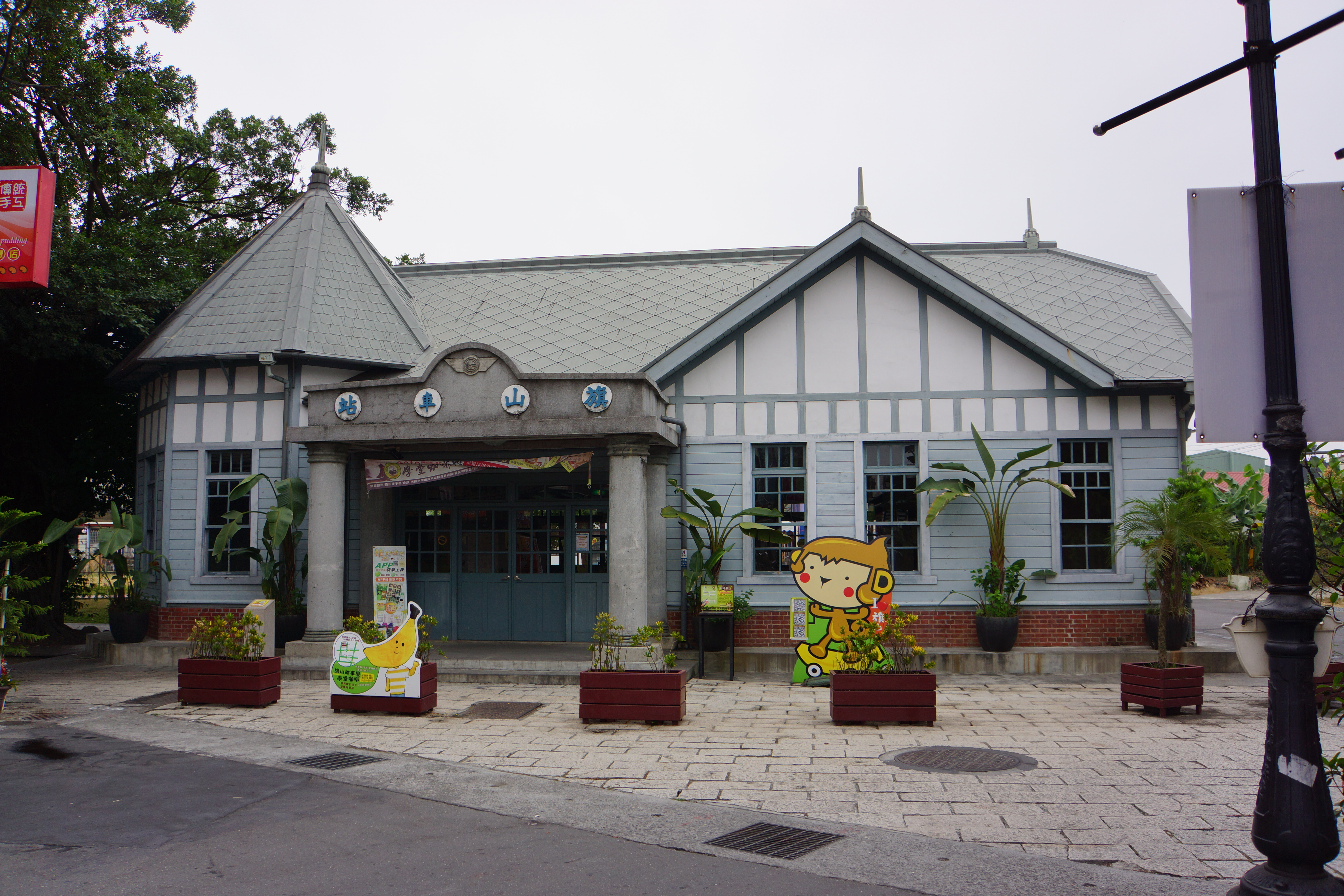 旗山車站 Qishan Station